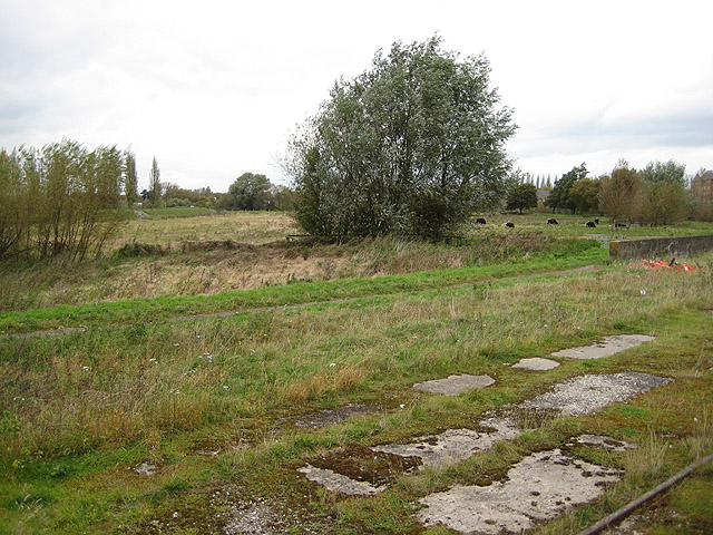 Alney Island Nature Reserve From the footbridge to Castle Meads.